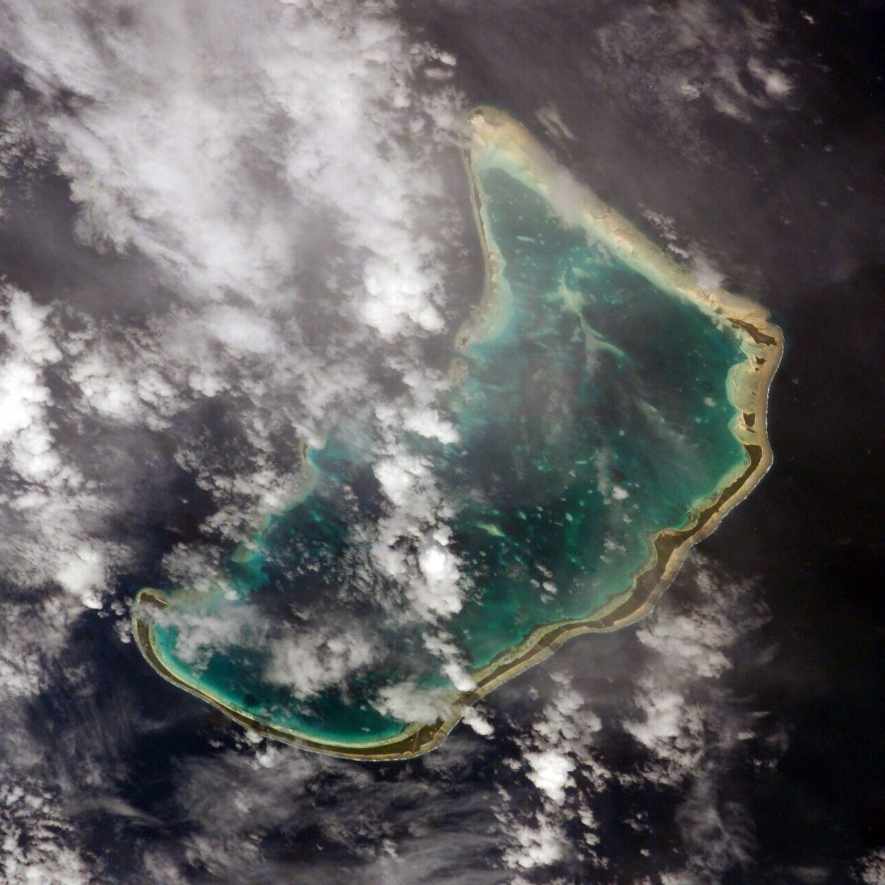 NASA astronaut image of Abaiang Atoll, Gilbert Islands, Kiribati ISS Crew Earth Observations: ISS011-E-9106 Identification Mission ISS011 (Expedition 11) Roll E Frame 9106 Country or Geographic Name Kiribati Features ABAIANG AT., TARAWA AT., REEFS Center Point Latitude 2.0° N Center Point Longitude 173.0° E Camera Camera Tilt 41° Camera Focal Length 200 mm Camera Kodak DCS760C Electronic Still Camera Film 3060 x 2036 pixel CCD, RGBG array. Quality Percentage of Cloud Cover 26-50% Nadir What is Nadir? Date 2005-06-18 Time 23:24:52 Nadir Point Latitude 3.3° N Nadir Point Longitude 170.6° E Nadir to Photo Center Direction Southeast Sun Azimuth 40° Spacecraft Altitude 190 nautical miles (350 km) Sun Elevation Angle 63° Orbit Number 1597